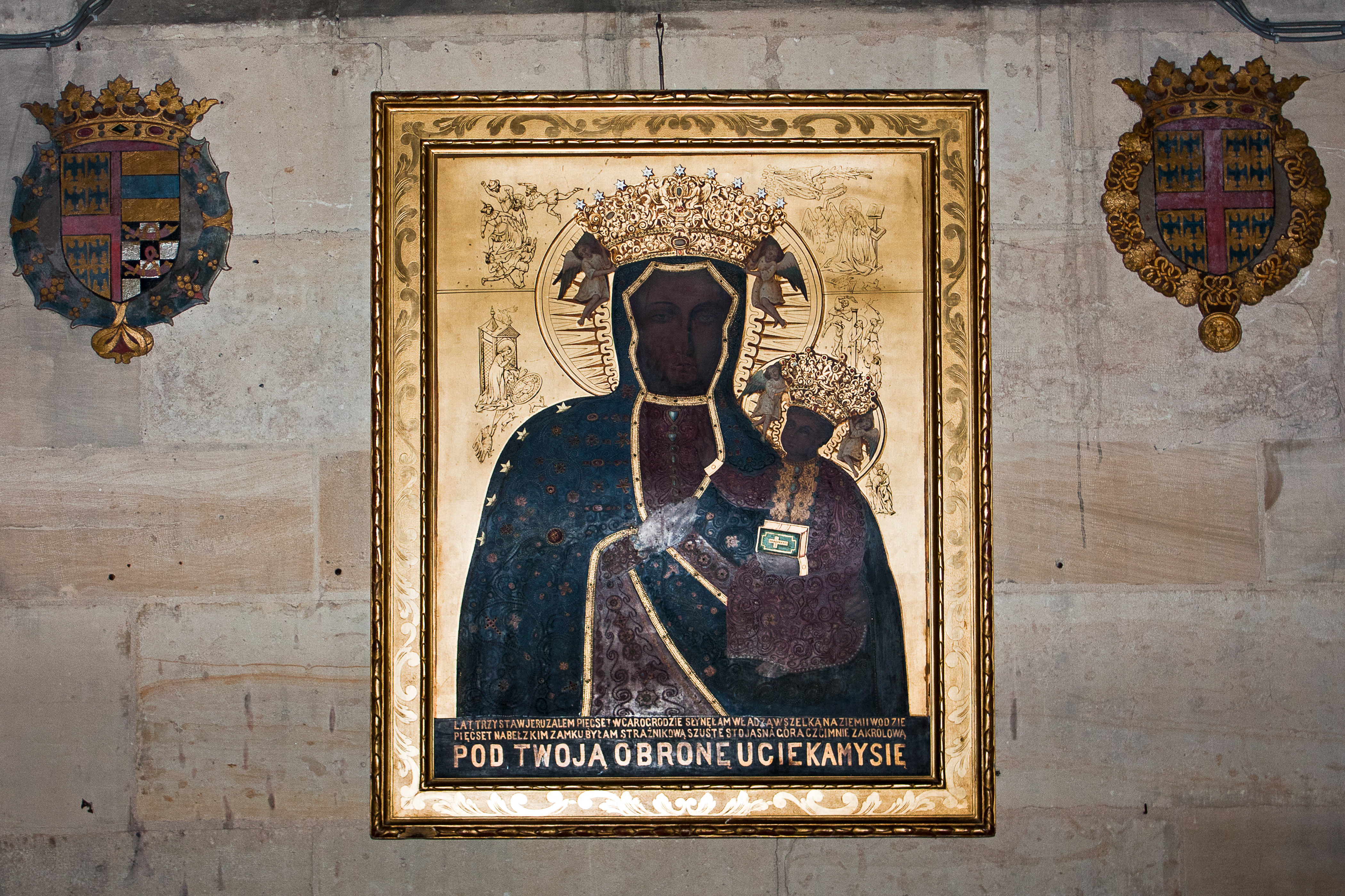 Copy of the Black Madonna of Czestochowa